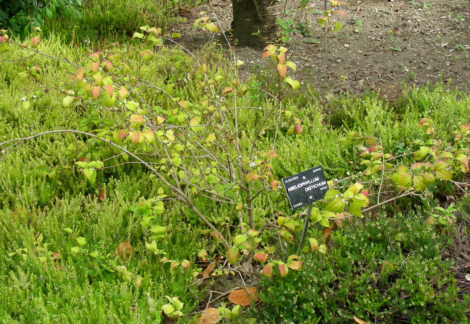 Abeliophyllum distichum, Parc de la Tête d'Or, Lyon, Rhône (department), France.